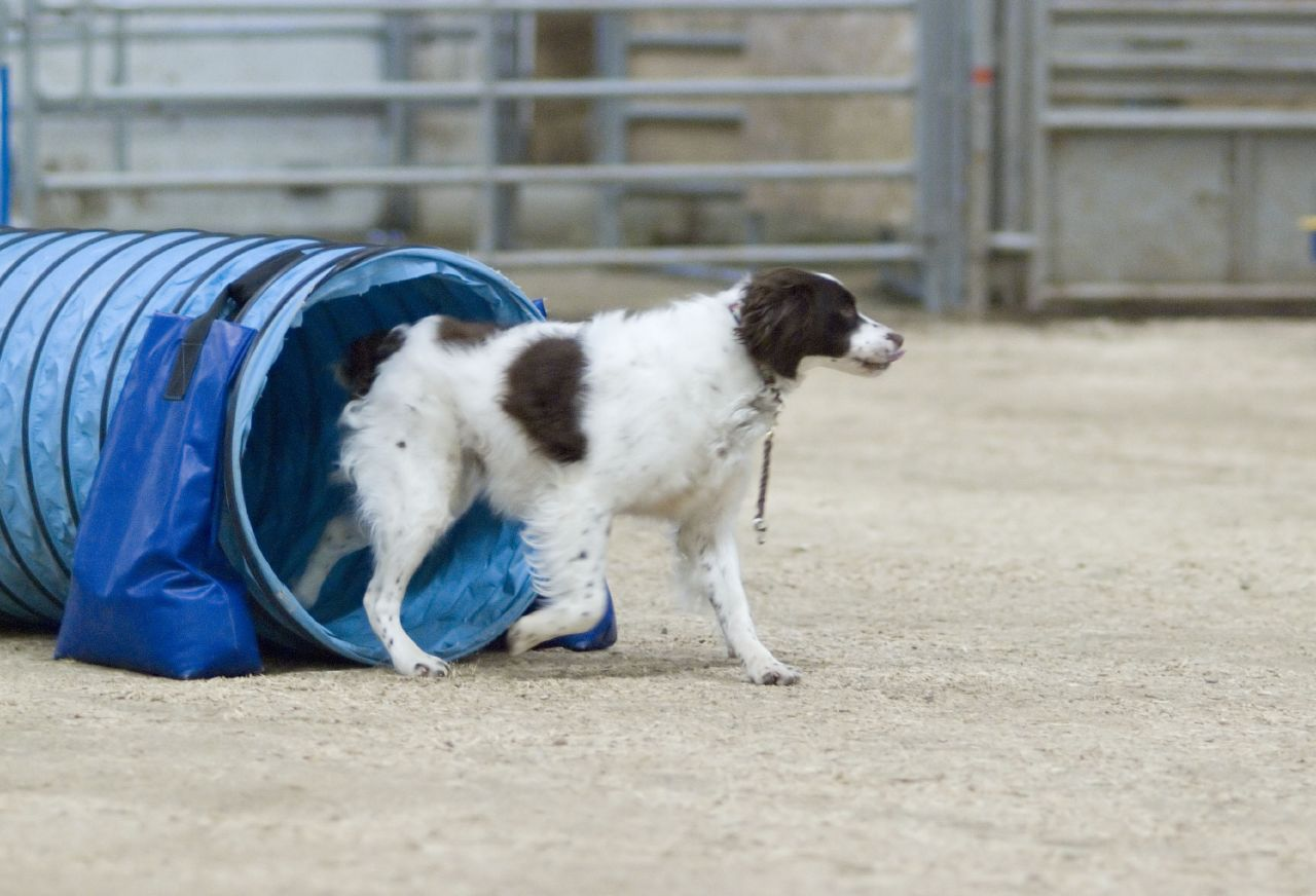 A liver-coloured Brittany (Brittany Spaniel).